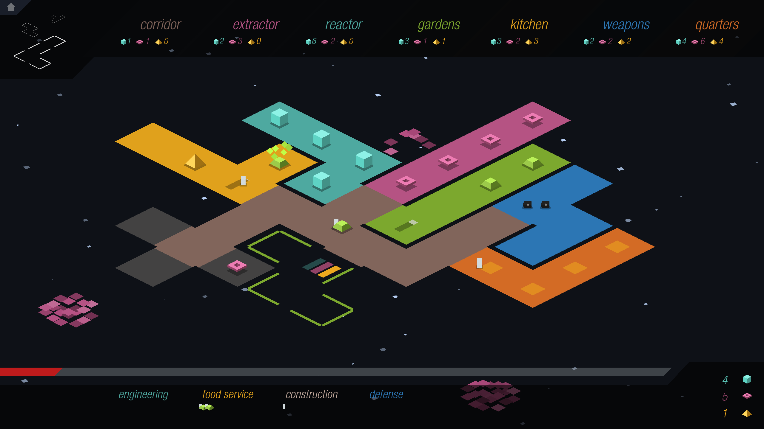 Rymdkapsel (video game) screenshot from the official press kit